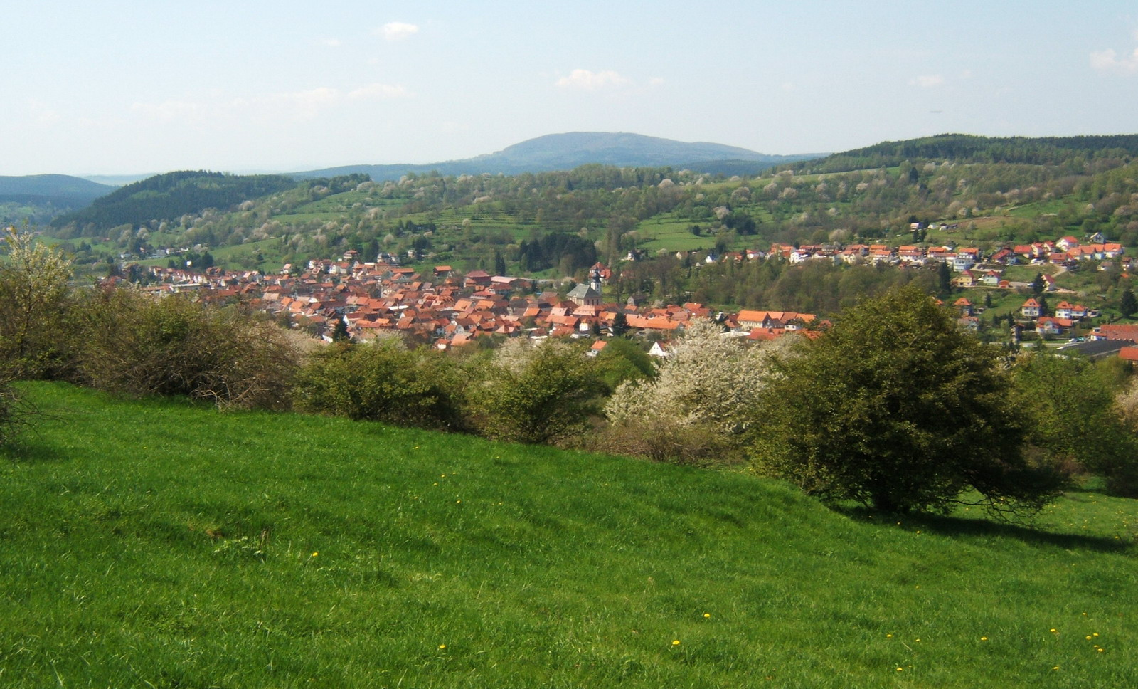 The village Benshausen in Thuringia, Germany